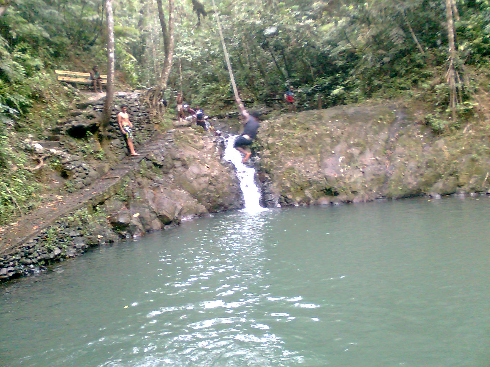 A waterfall, rope-swing and swimming hole in Colo-i-Suva Forest Reserve, Fiji. This is the main reason that some people visit the park!